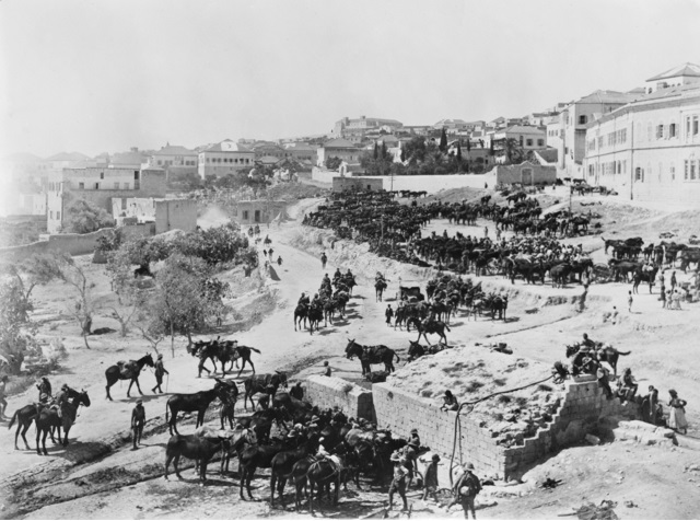 Cavalry at Mary's Well, Nazareth Other information Australian Government owns copyright. Photograph taken before 1955